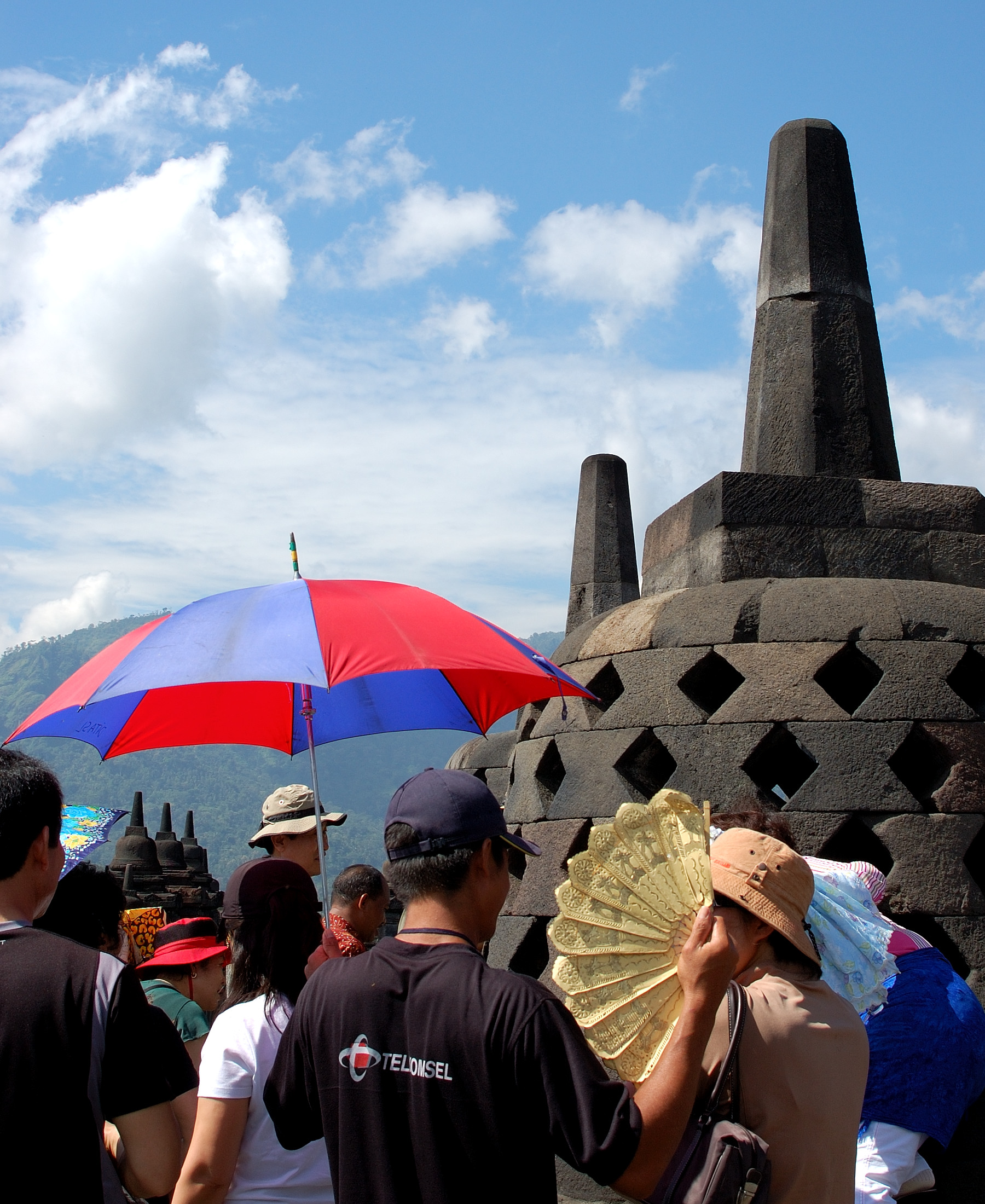 tourists at Borobudur